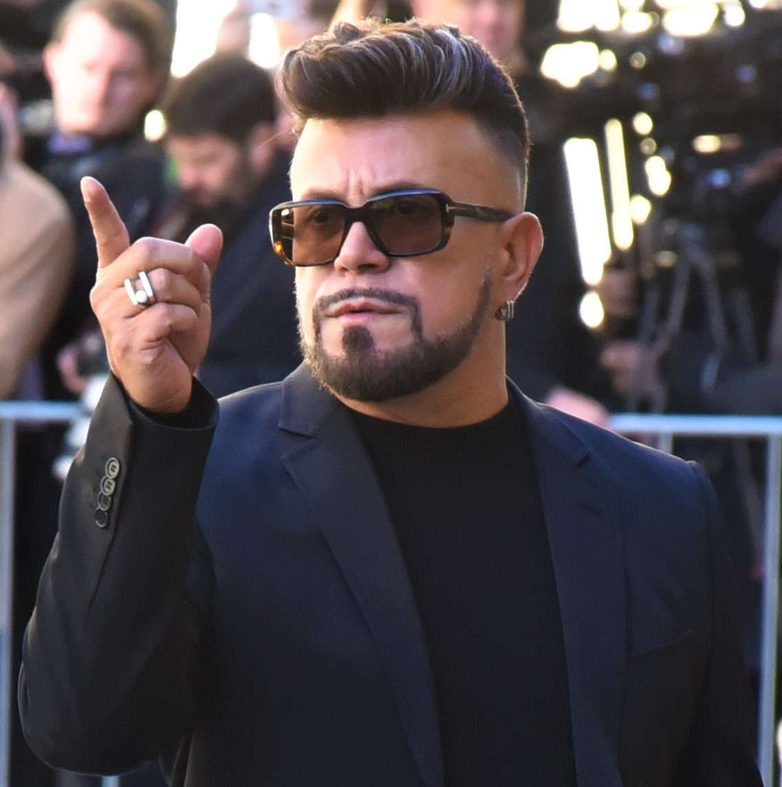 Osmany Laffita, Cuban fashion designer